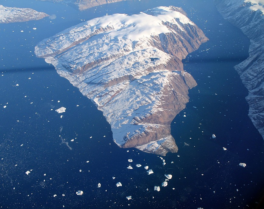 Aerial photograph of an island just off the coast of Greenland